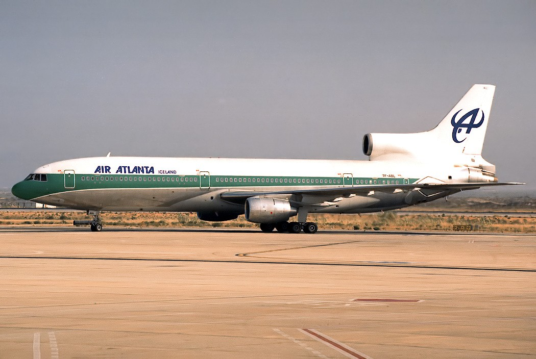 Lockheed L-1011TriStar Air Atlanta Icelandic (TF-ABL) at Faro International Airport